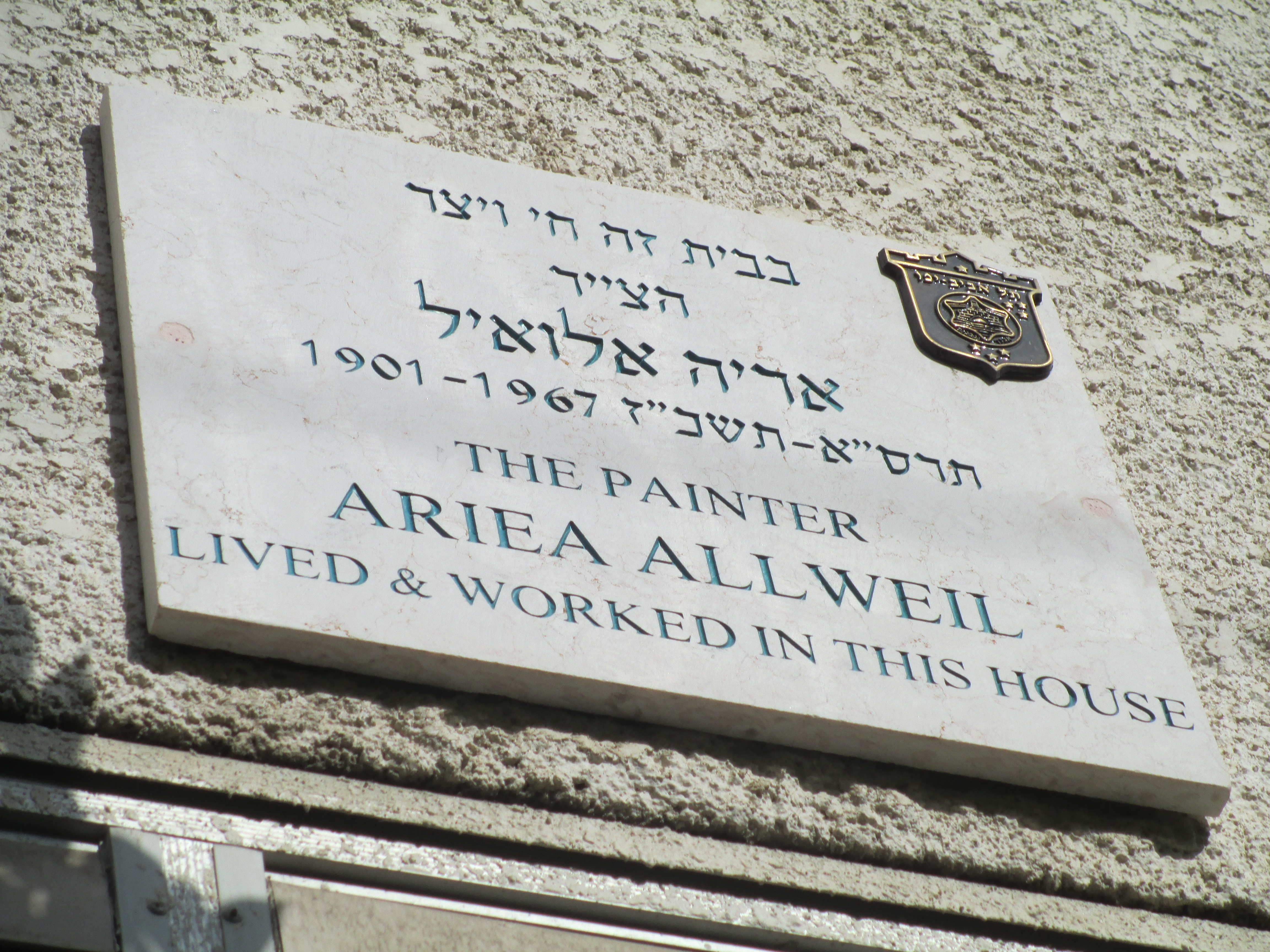 Memorial plaque to the painter Arieh Allweil in Tel Aviv